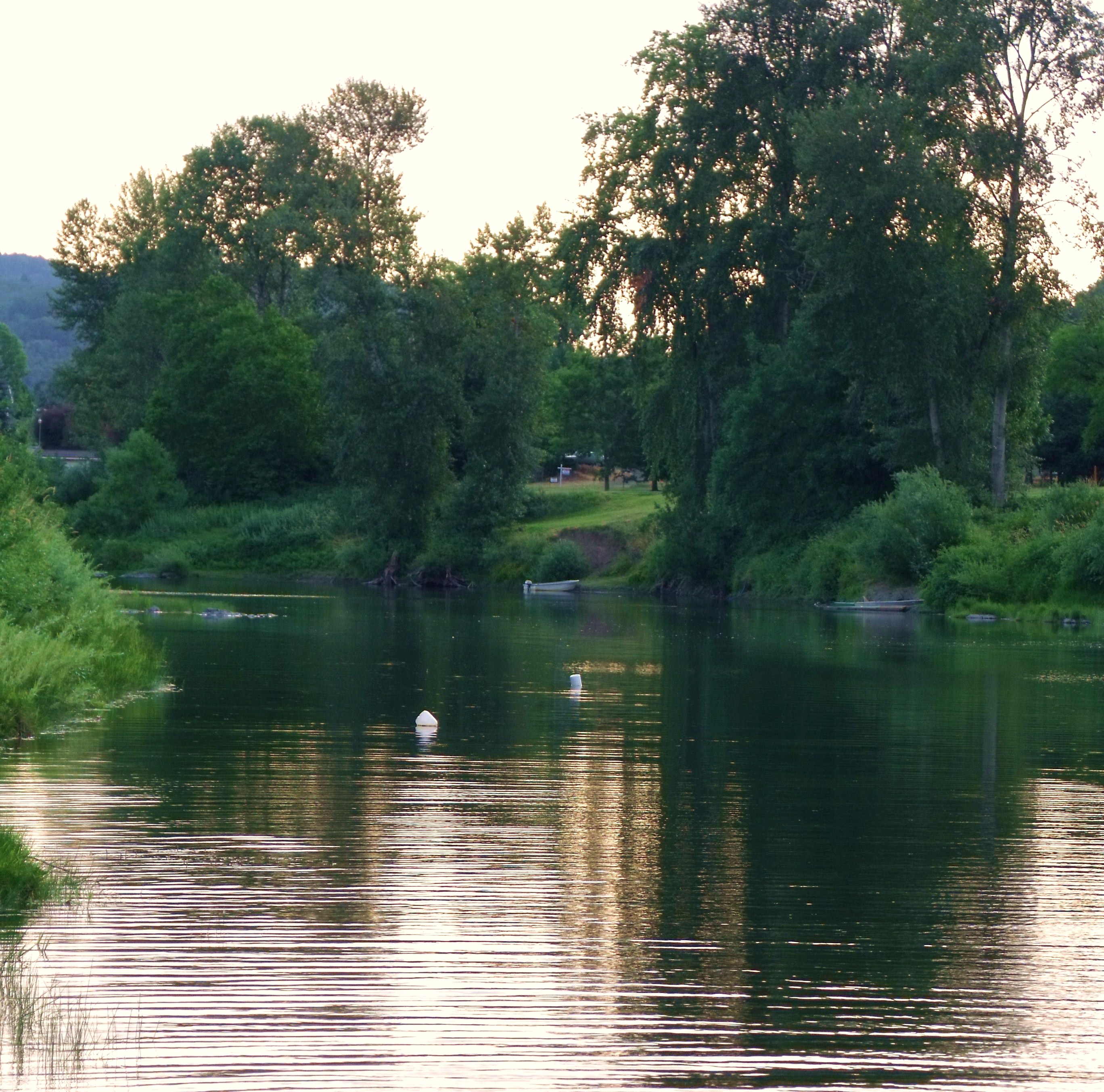 The South Umpqua River, which meets the North Umpqua to form the Umpqua River near Roseburg, in Douglas County, Oregon